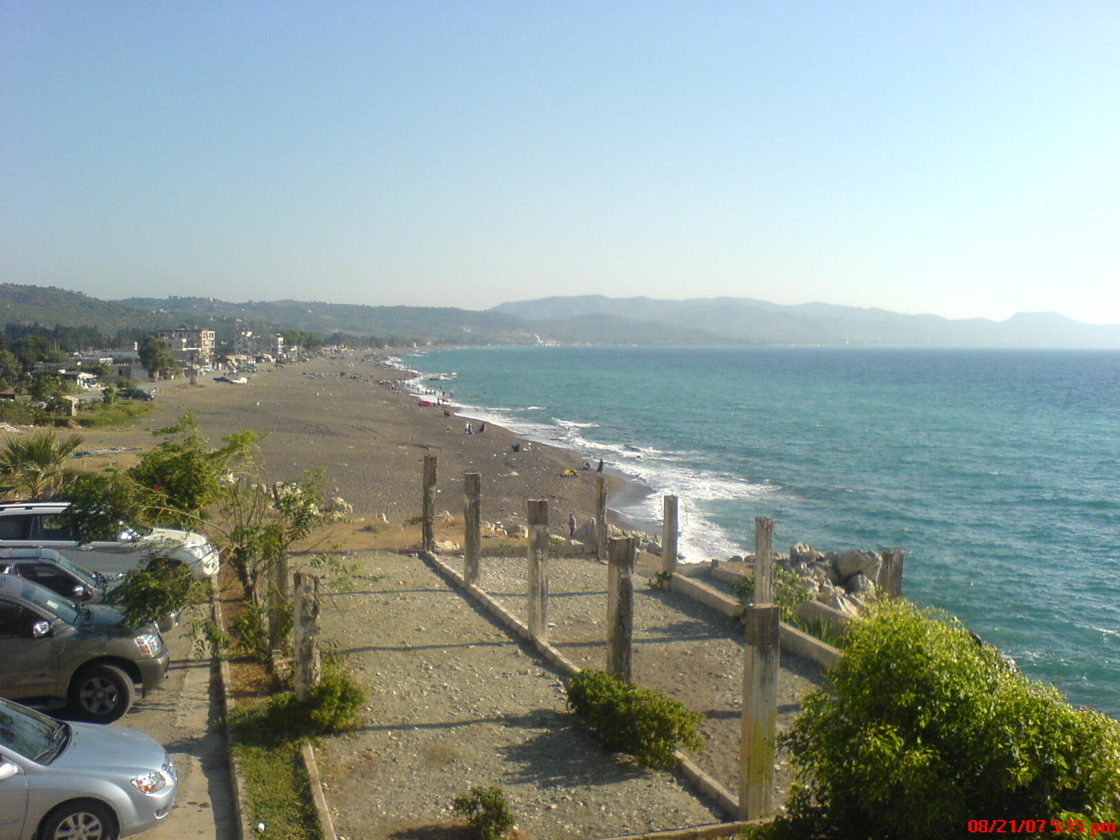 Badrusiye Beach